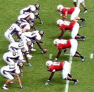 crop of File:2008 ECU NC State football snap cropped.jpg